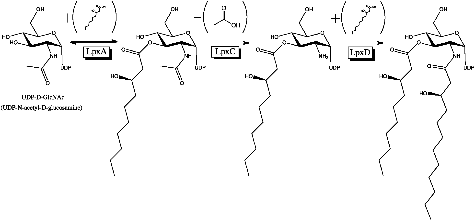 Biosynthesis of Lipid A: from UDP-GlcNAc to Diacyl-UDP-GlcN. Synthesis as found in Pseudomonas aeruigosa. Original work created for Wikipedia. Review of the subject, King et al. (2009) Innate Immunity 15(5), pp.261-312